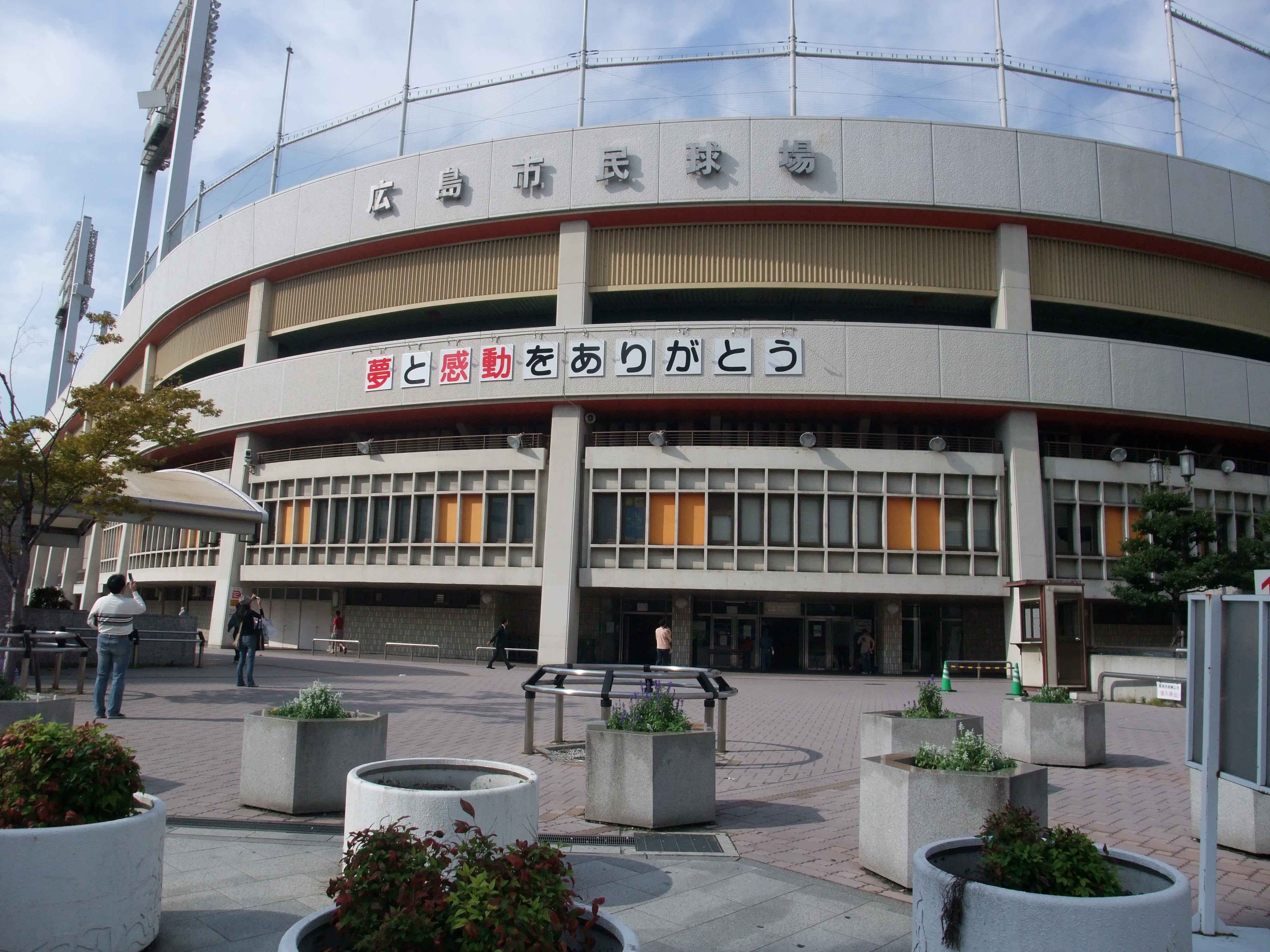 Hiroshima Municipal Baseball Stadium